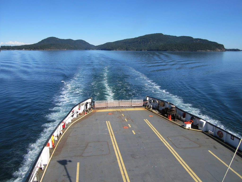 the ferry MV Mayne Queen departing Saturna Island, British Columbia, Canada, with Mount Warburton Pike on the right